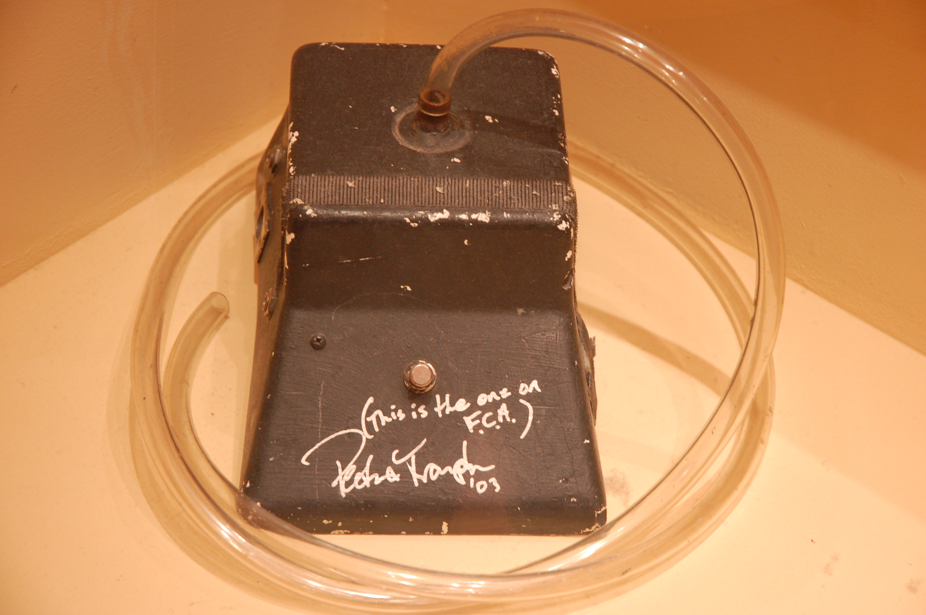 Used on Frampton Comes Alive